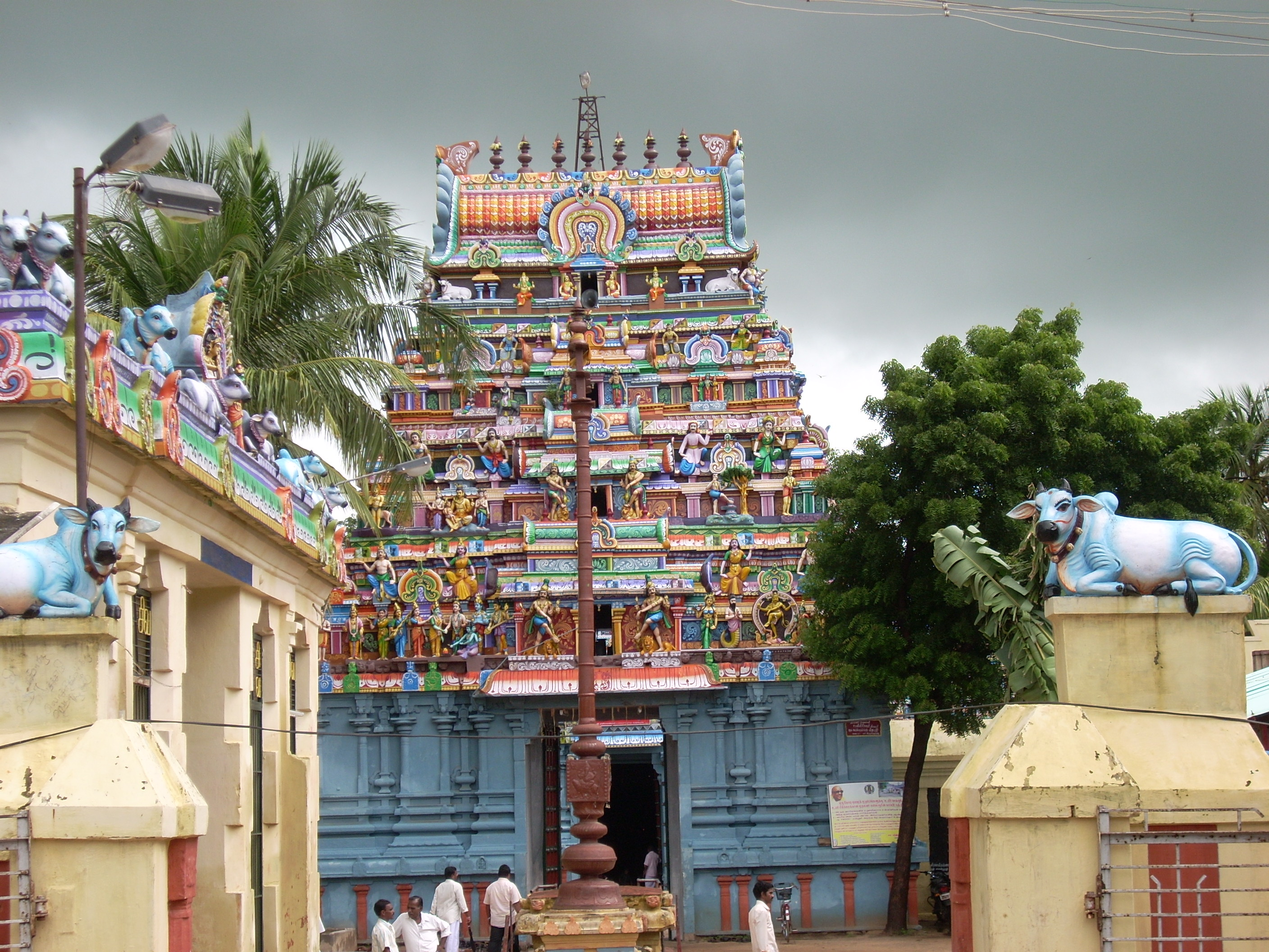 Piravimarundeesar temple at Thiruthuraipoondi